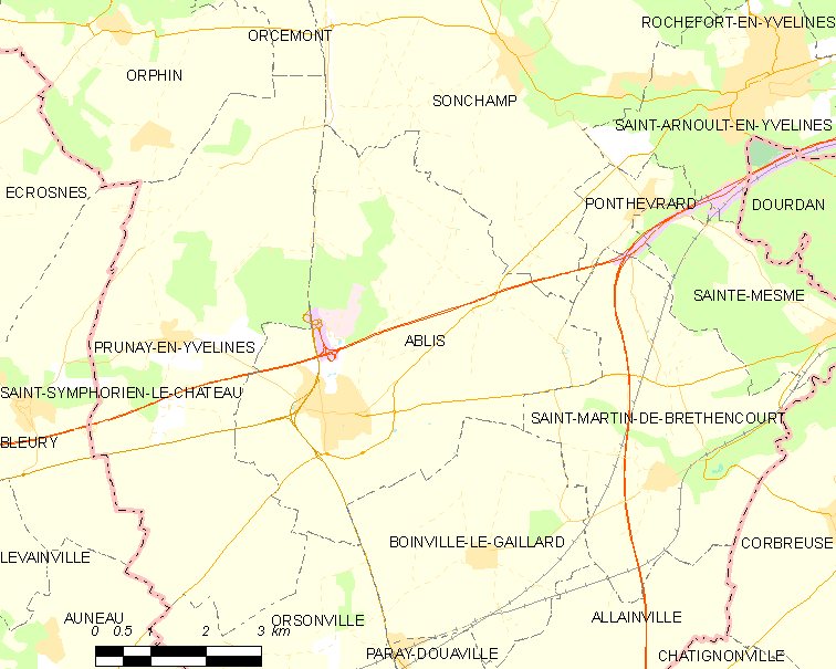 Map of French municipality Ablis